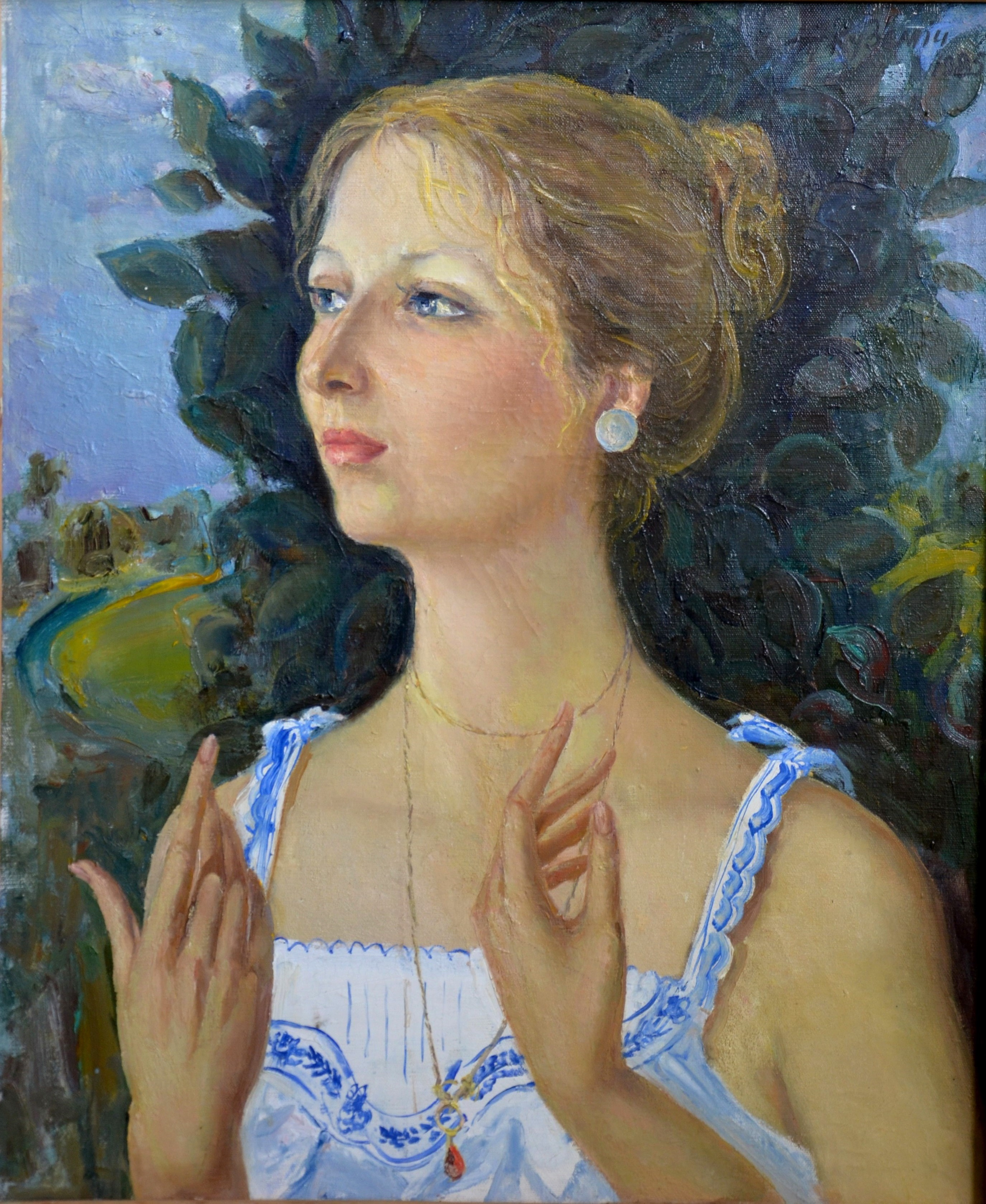 Alexei Kuzmich "Inspiration" 1985, 85 х 67 cm, oil on canvas